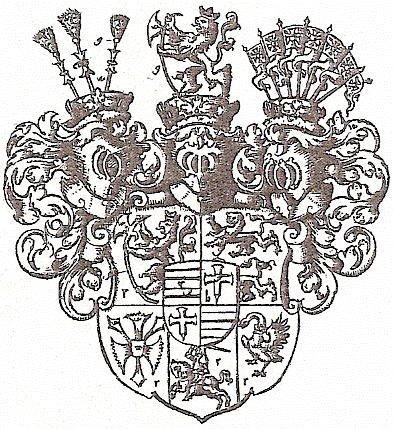 Coat of arms of the duke of Holstein-Gottorp in 1703